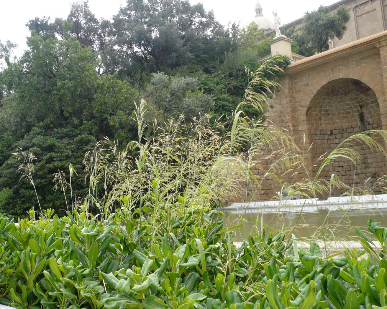 Oryzopsis miliacea or Piptatherum miliaceum in Montjuïc, Barcelona, Catalonia.